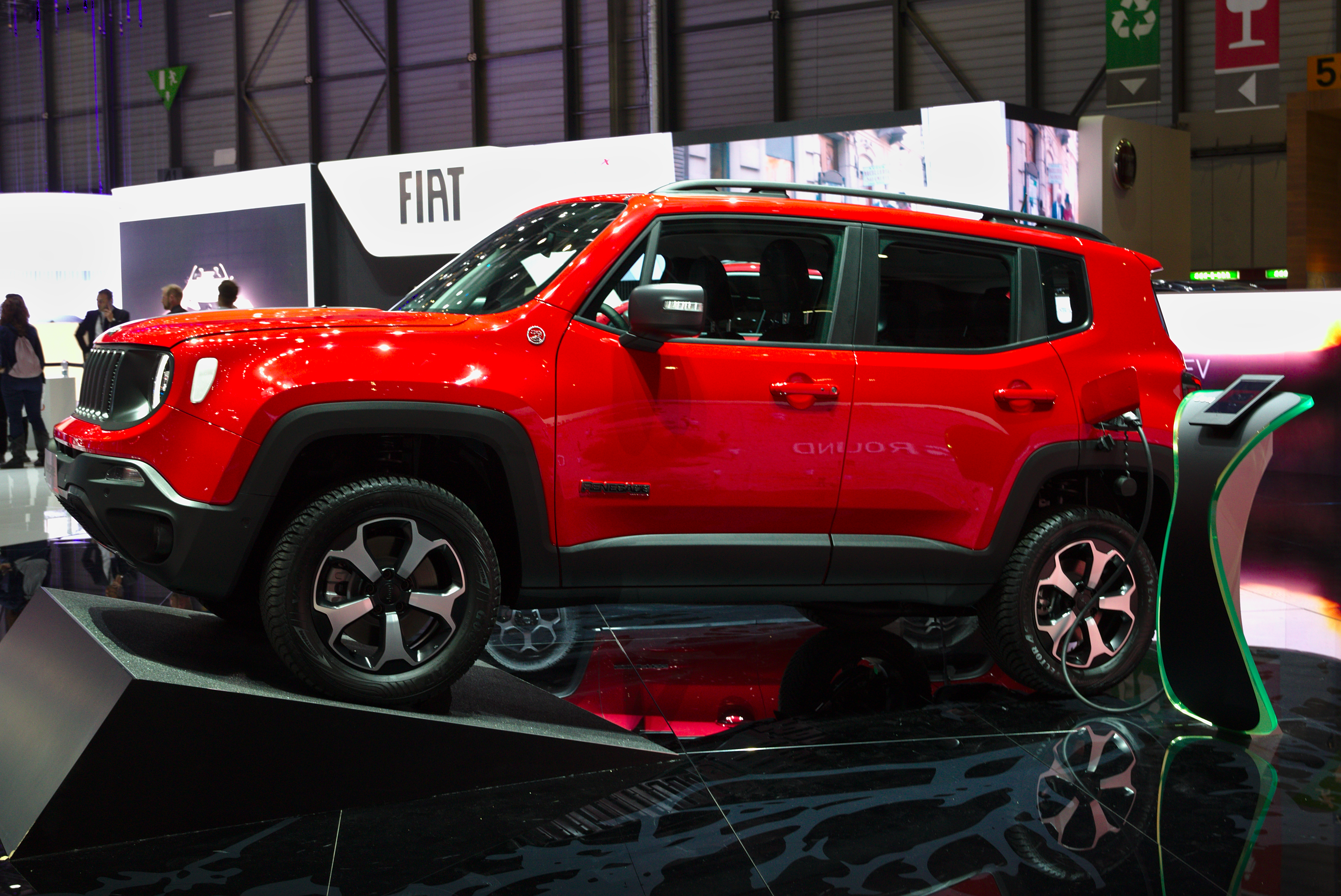 Jeep Renegade PHEV at Geneva Motor Show 2019